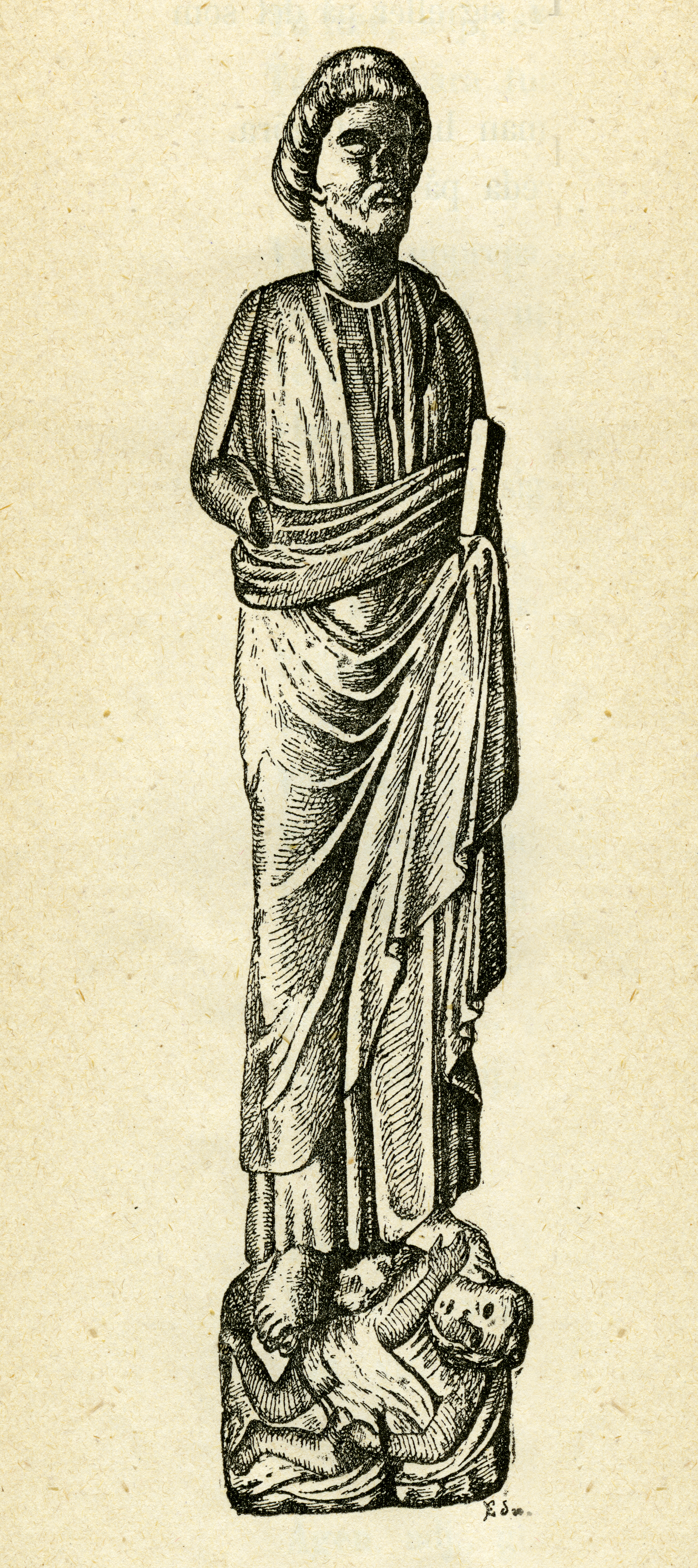 Kornguden i Vånga (i.e. "the Corn God in Vånga") depicted at page 60 in Västergötlands Fornminnesförenings Tidskrift (1877). "The Corn God" is a statue of an apostle (probably Saint Paul) that until 1826 was standing i the parish church of Norra Vånga, Skåning hundred, former Skaraborg county, the Diocese of Skara, Västergötland, Västra Götaland county, Sweden. It is told that the statue was used as an idol or an heathen cult image by the farmers in the parish. They called him "The Corn God". One morning each spring they took him out of the church and carried him around the fields to ensure a good harvest. In 1826 the statue was sent to the museum in Skara.